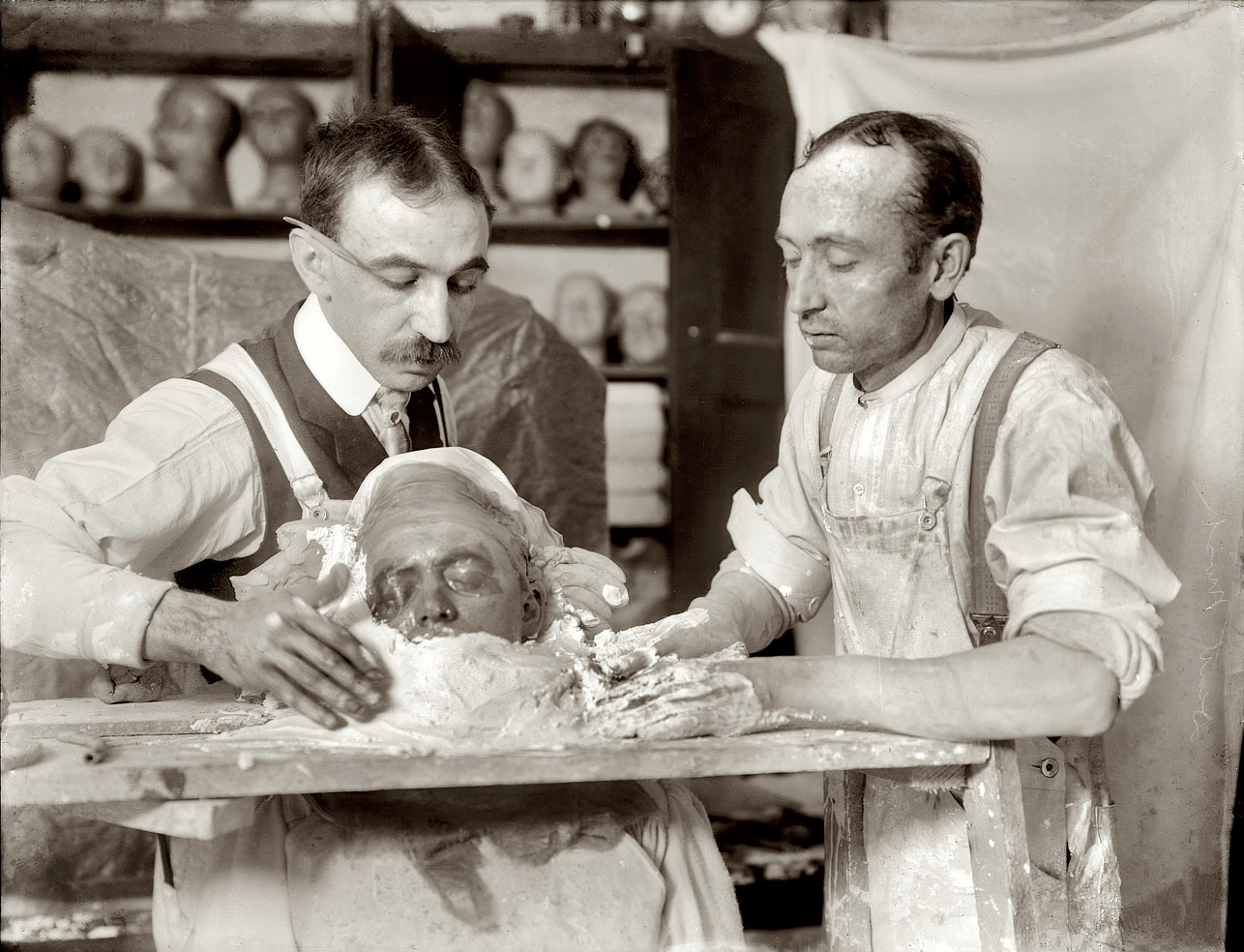 Two men making a death mask, New York, circa 1908.